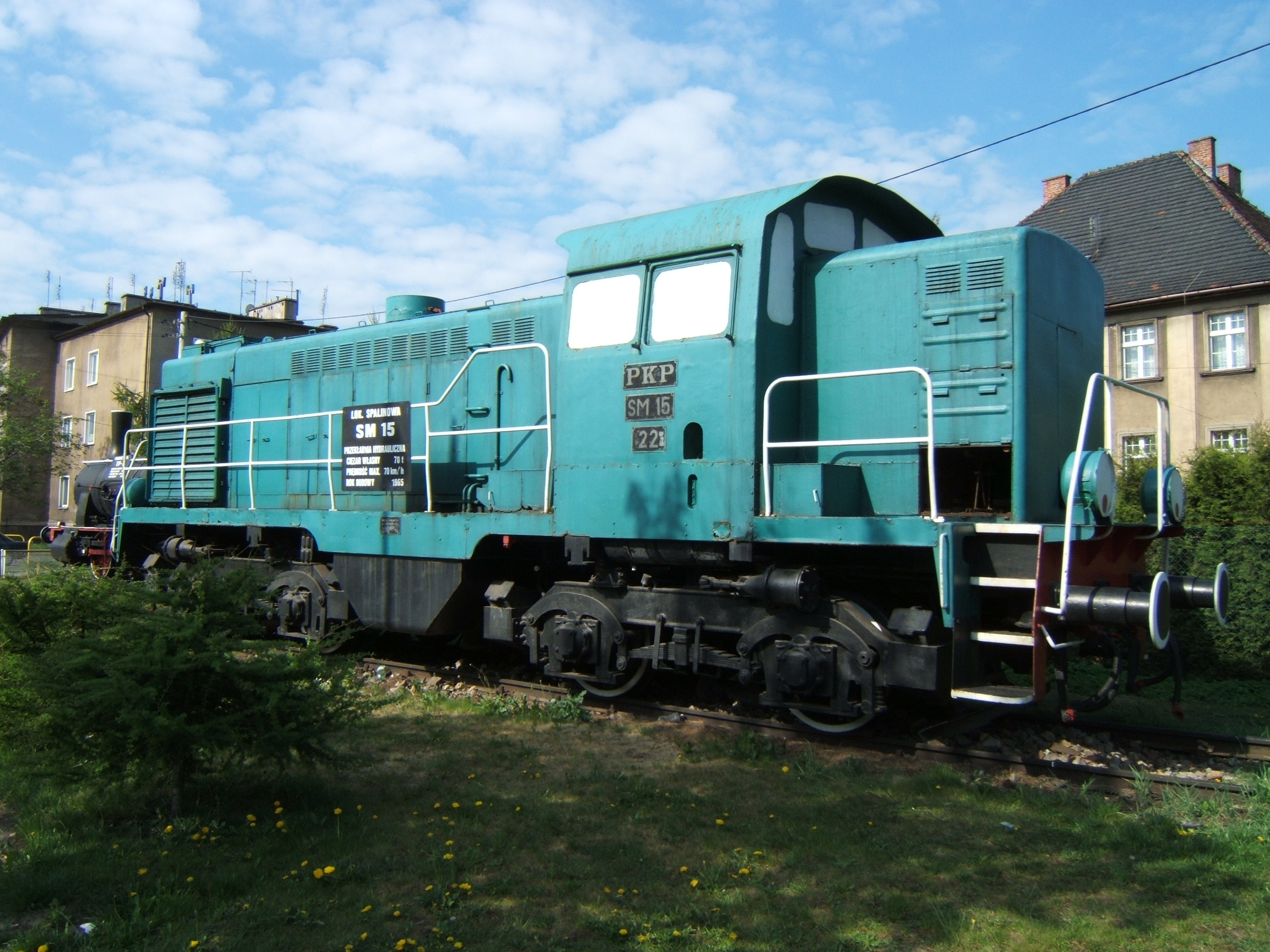 SM15-022, polish diesel shunter exhibited in Tarnowskie Góry